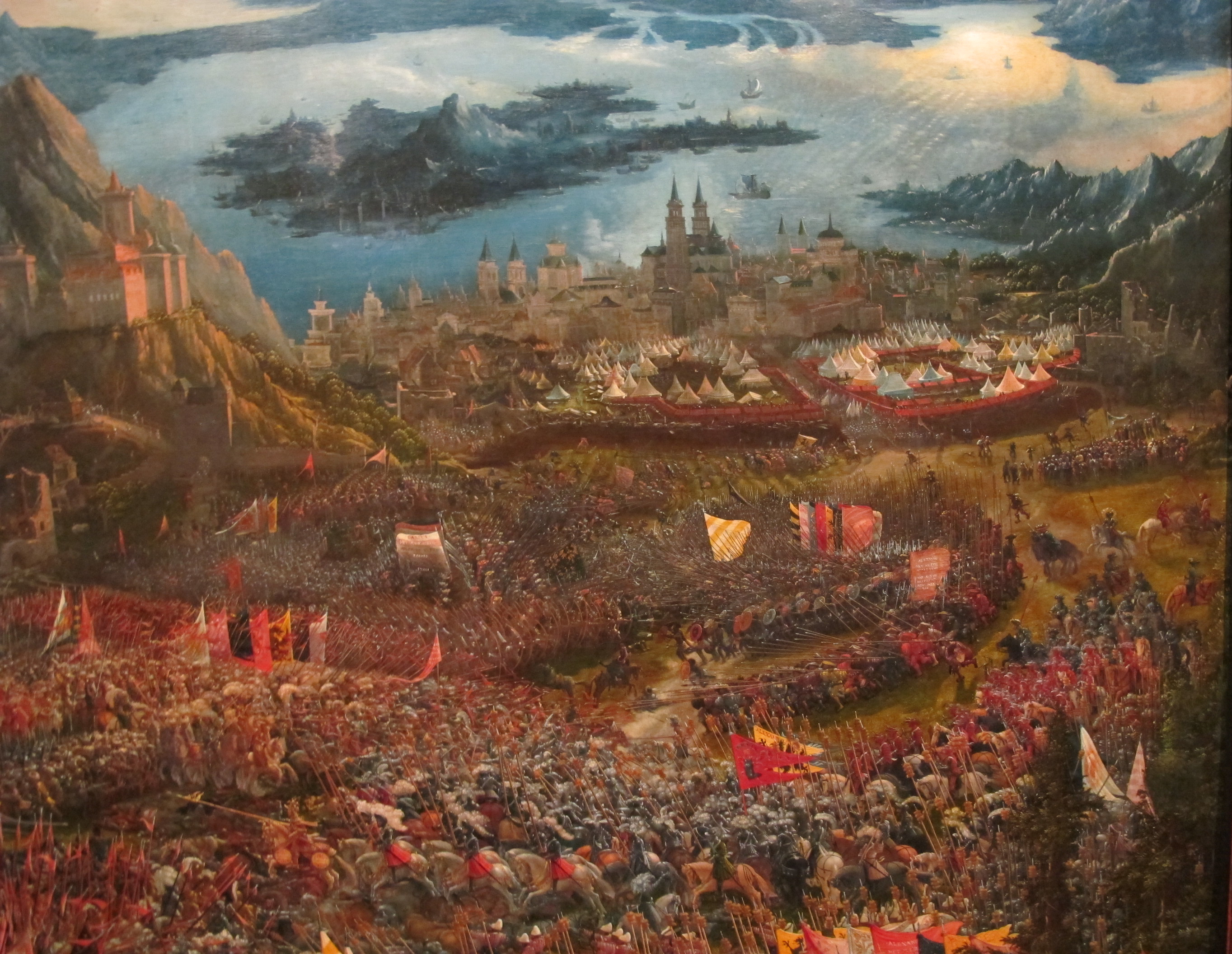 Battle of Alexander the Great against Persian King Darius